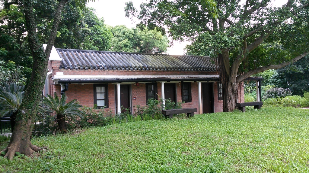 The Green Hub - Staff Quarters Block